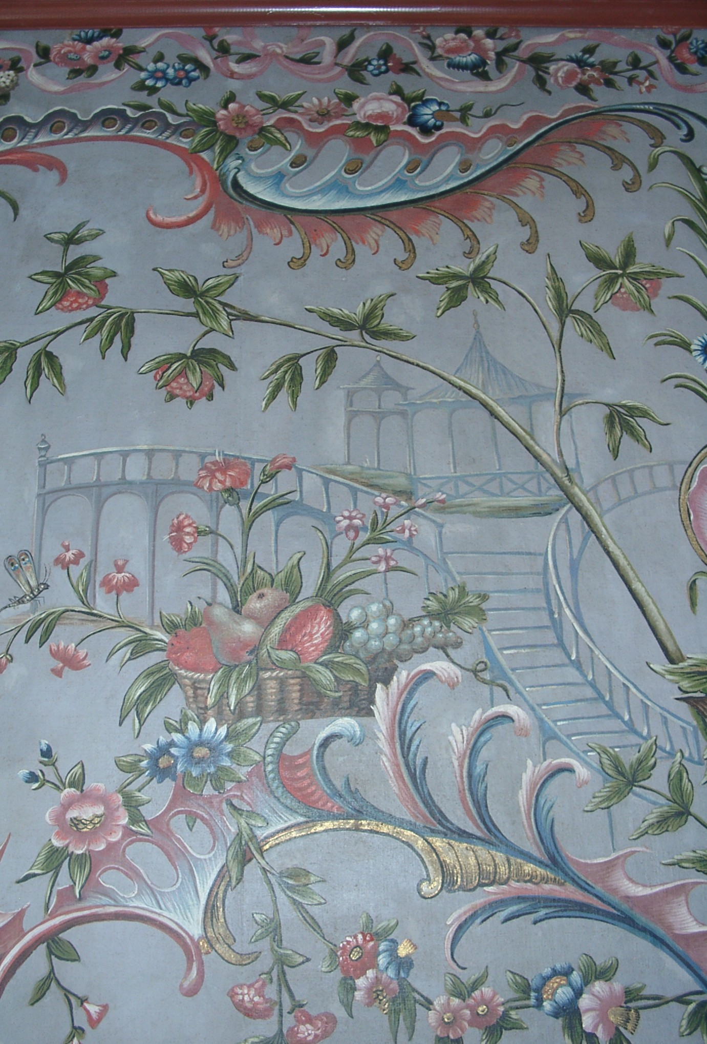 Wallcovering on canvas, handpainted, with chinoiserie and rococo ornaments (around 1765)